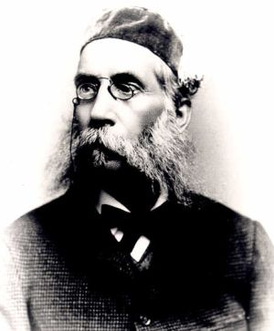 Horace Parnell Tuttle